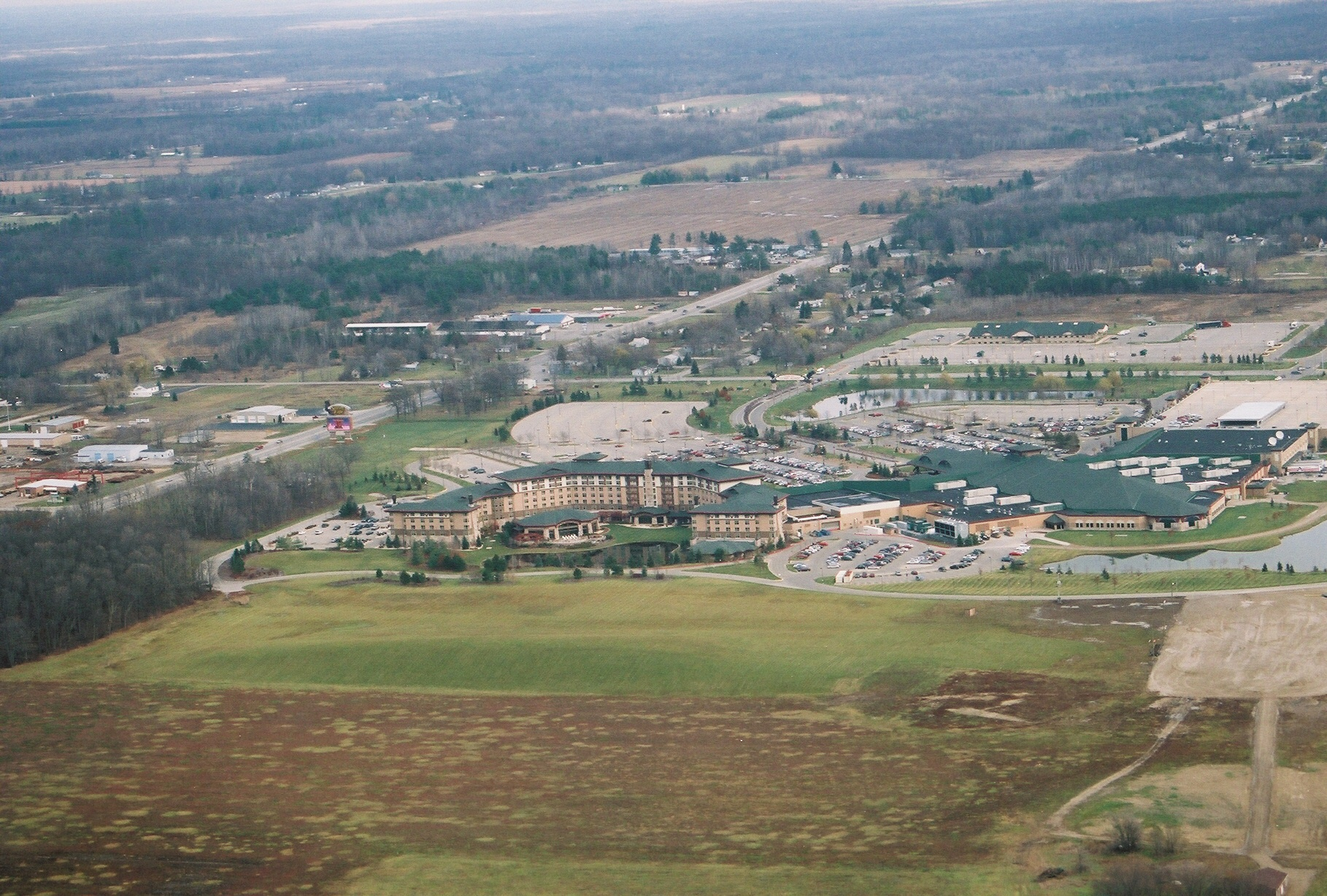 Soaring Eagle Casino viewed from the air in 2008.